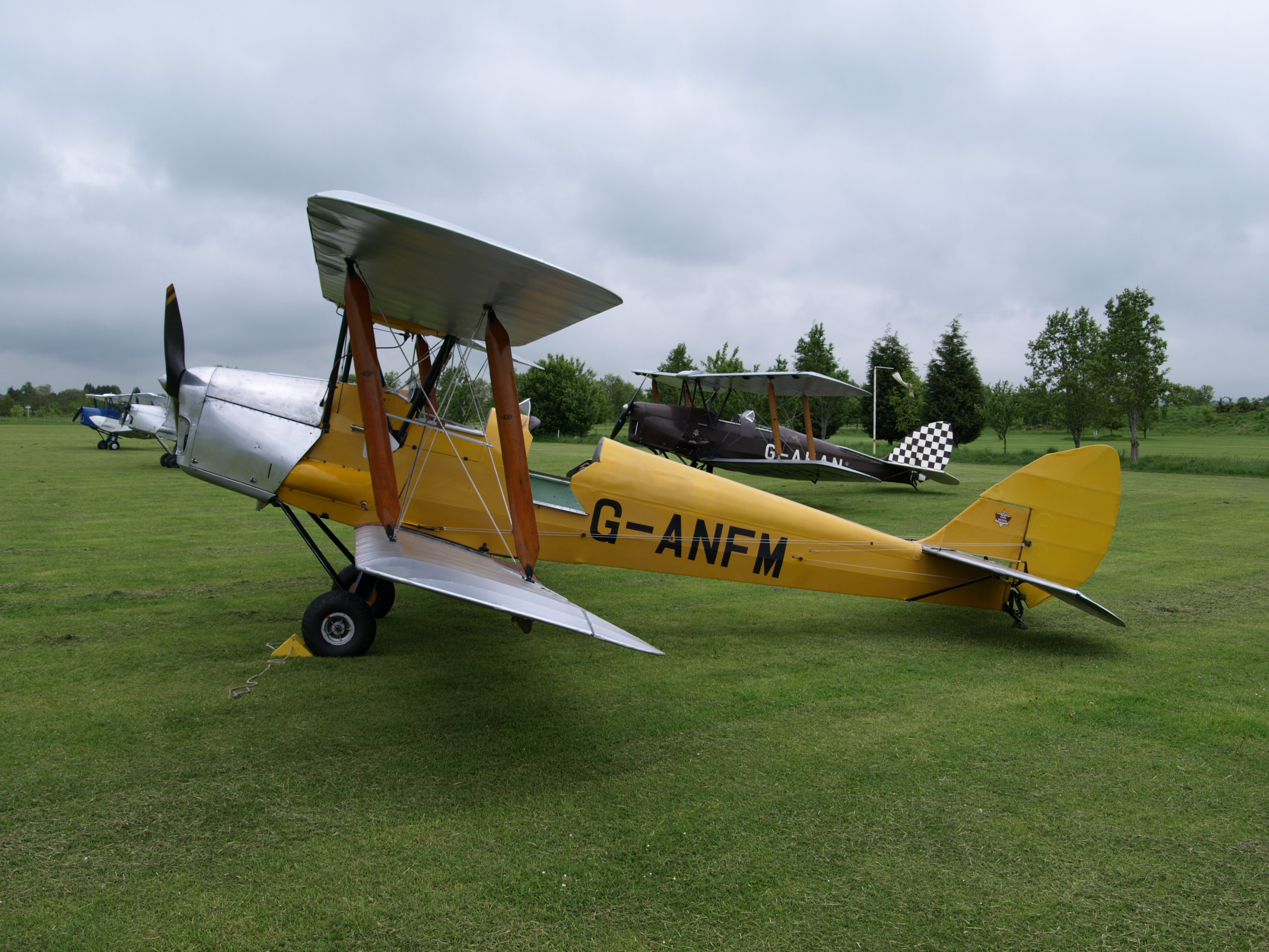 de Havilland DH.82A Tiger Moth G-ANFM at RAF Henlow